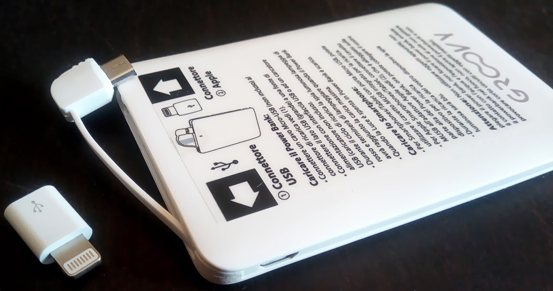 Power-bank (powered charger), cable car adapter and adapter, you can see the microusb socket for charging the charger near the cable base.